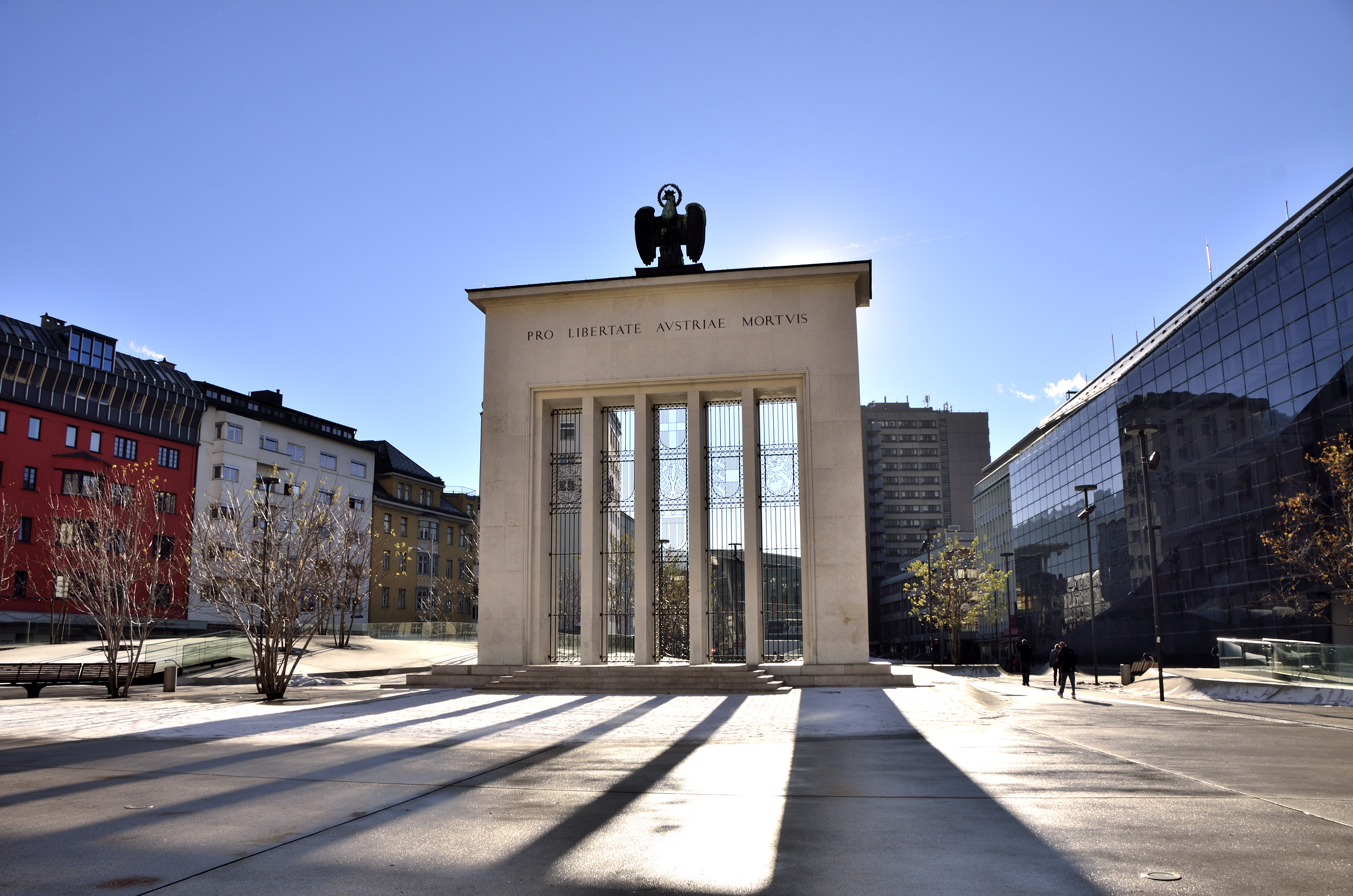 Eduard-Wallnöfer-Platz (Landhausplatz) is the largest public square in the centre of the city of Innsbruck in Tyrol, Austria.